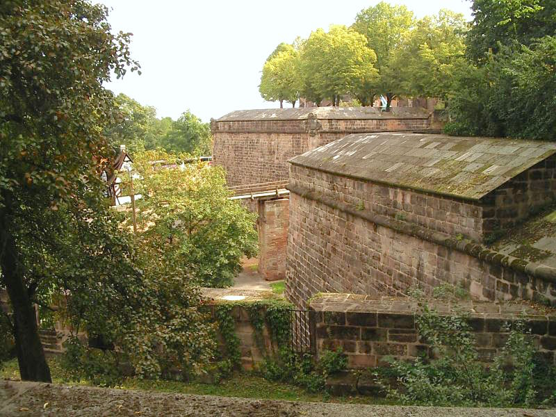 Defensive Wall, Nuremberg (Germany), north part, burggarten bastion from west